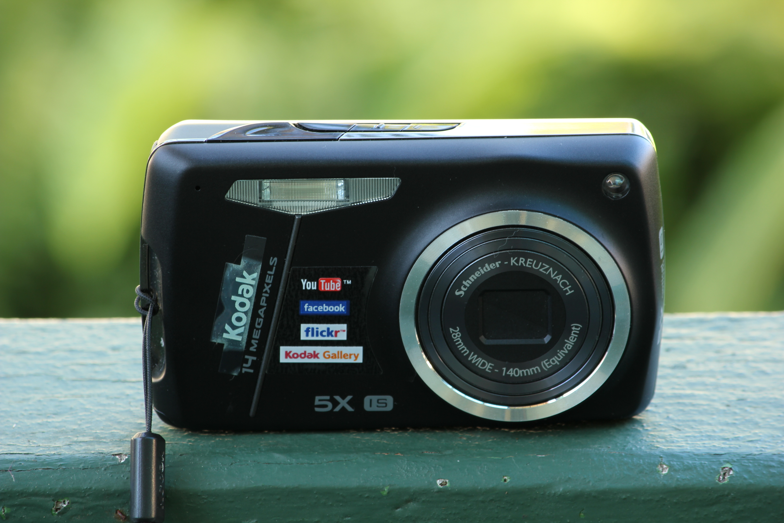 Front of Kodak EasyShare M575 digital camera